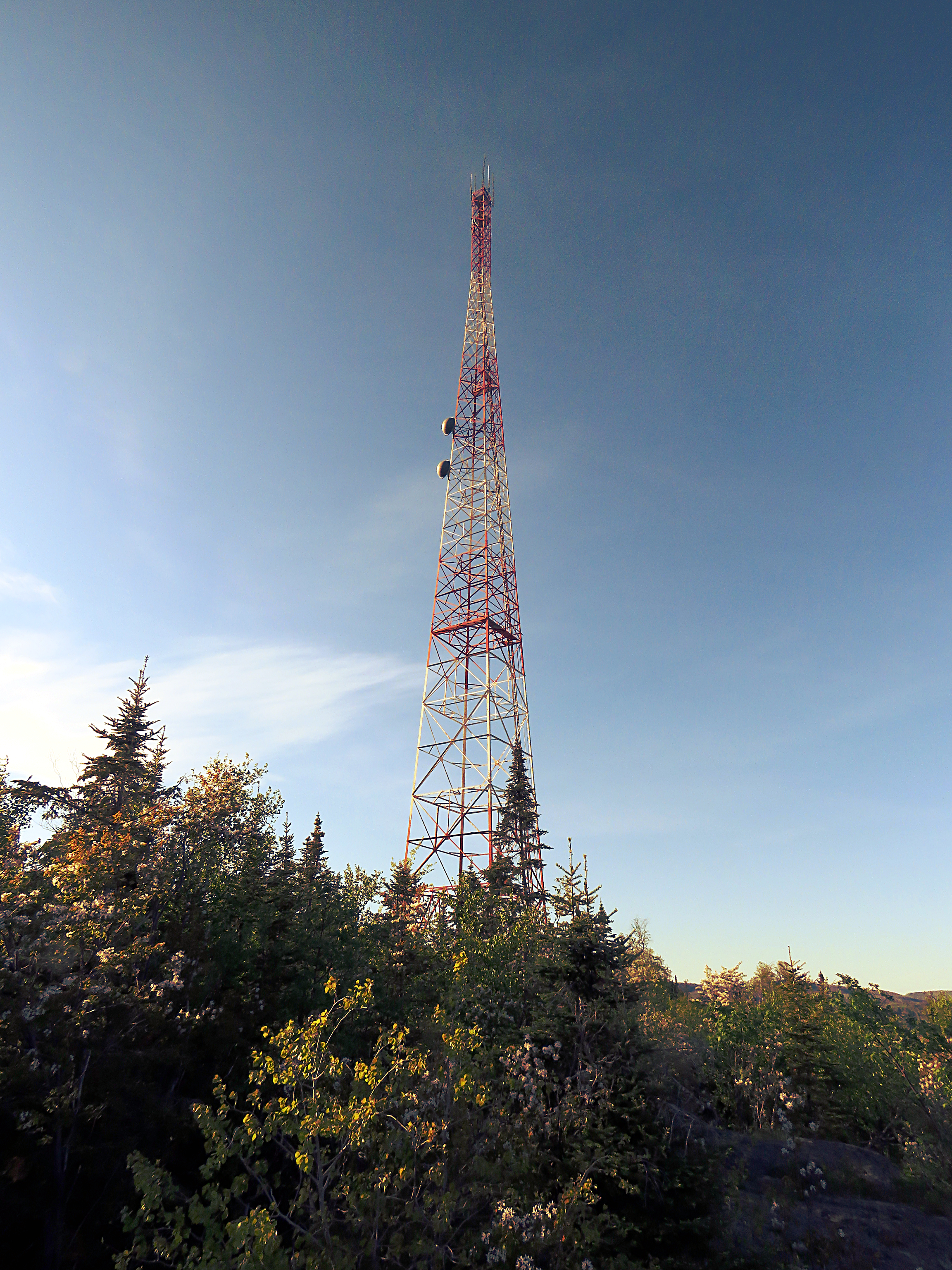 Radio tower on Palisade Head, Mn, USA. Photographed shortly before dusk.